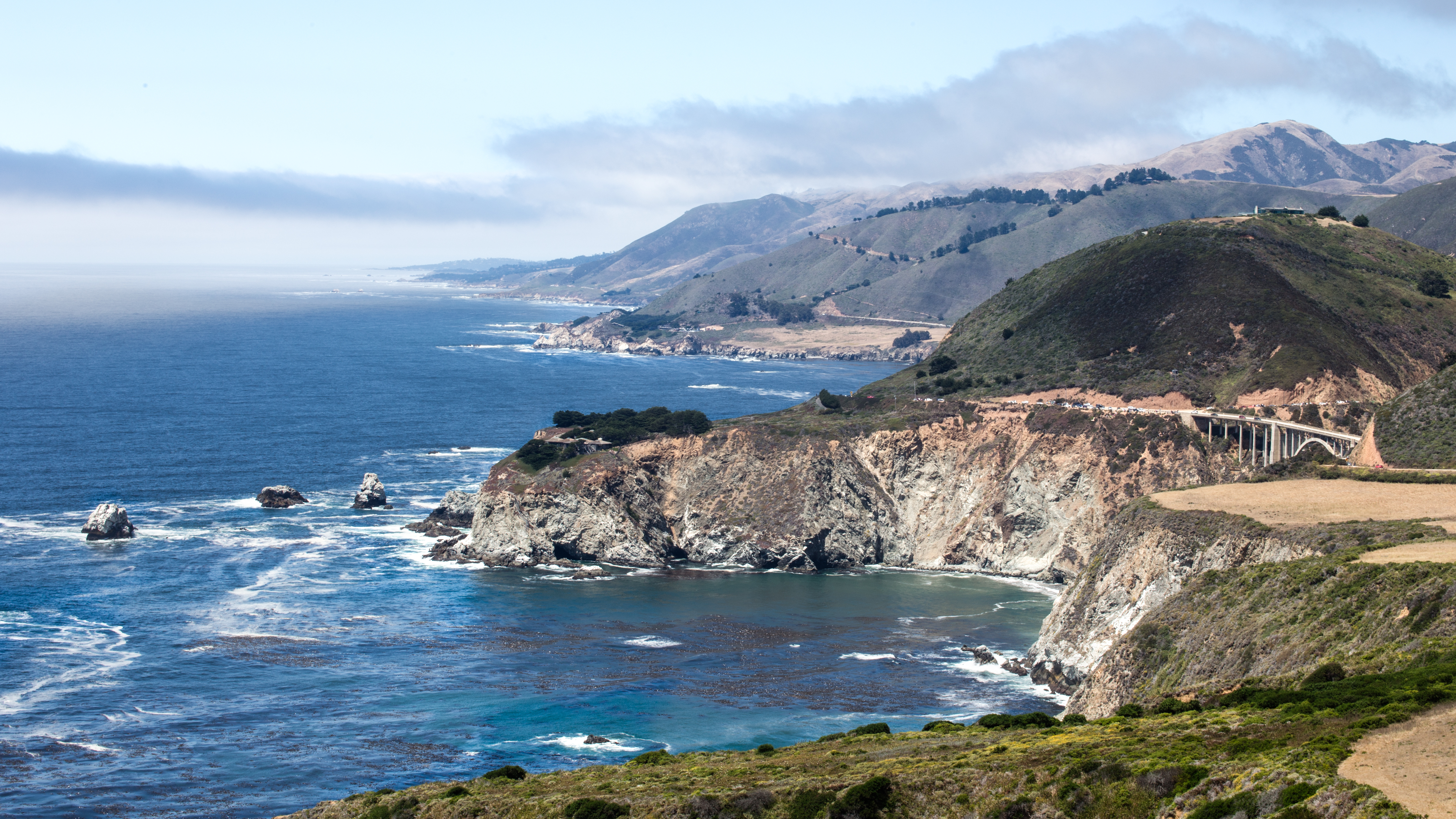 Big Sur coastline, California, USA.